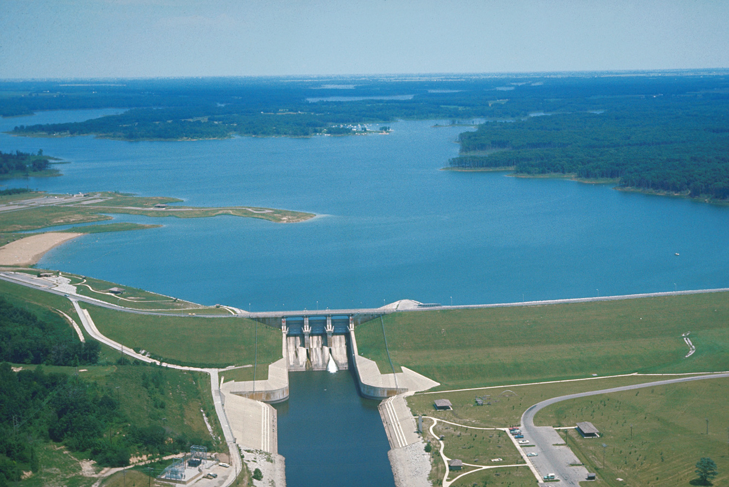 Shelbyville Lake and Dam on the Kaskaskia River — near Shelbyville, Illinois, USA. The U.S. Army Corps of Engineers completed construction of the dam on the Kaskaskia River in central Illinois in 1970.